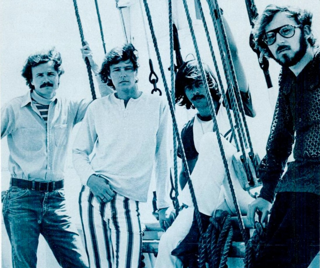 Trade ad for the band Bread's single "It Don't Matter To Me". To better adapt it to their respective Wikipedia article, the ad was cropped and edited in a graphics editing program. The original can be viewed at the source below.